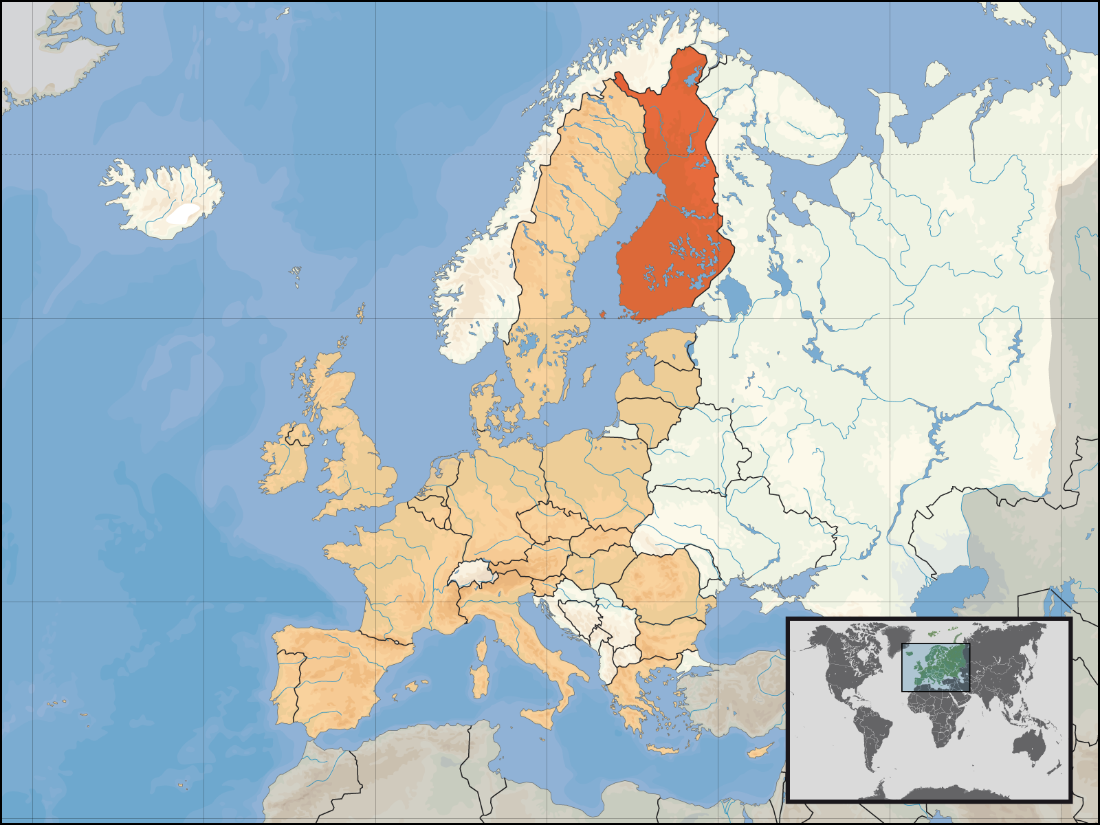 Location of Finland within Europe and the European Union on the 1st of January 2007.